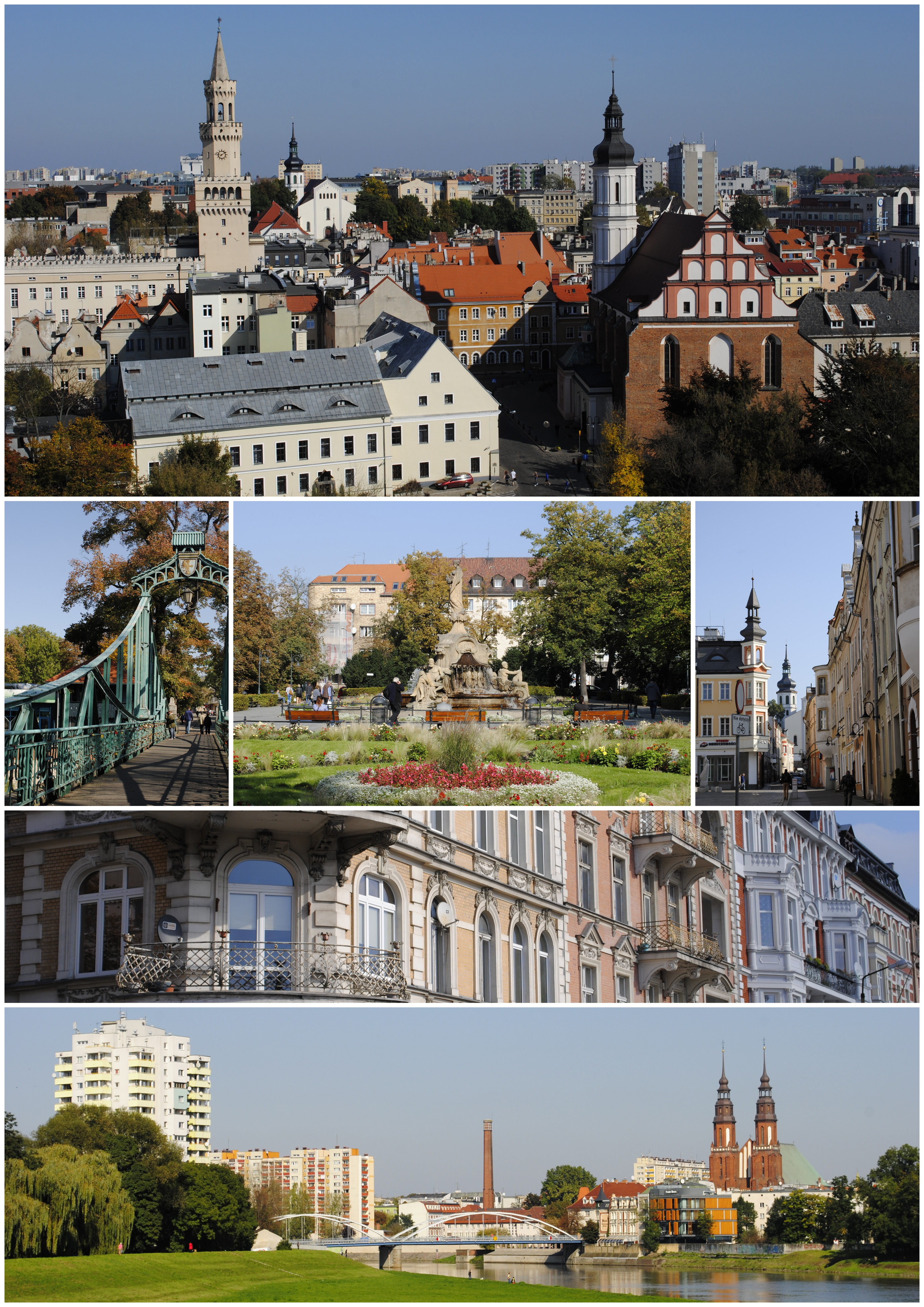 Montage of Opole, Poland